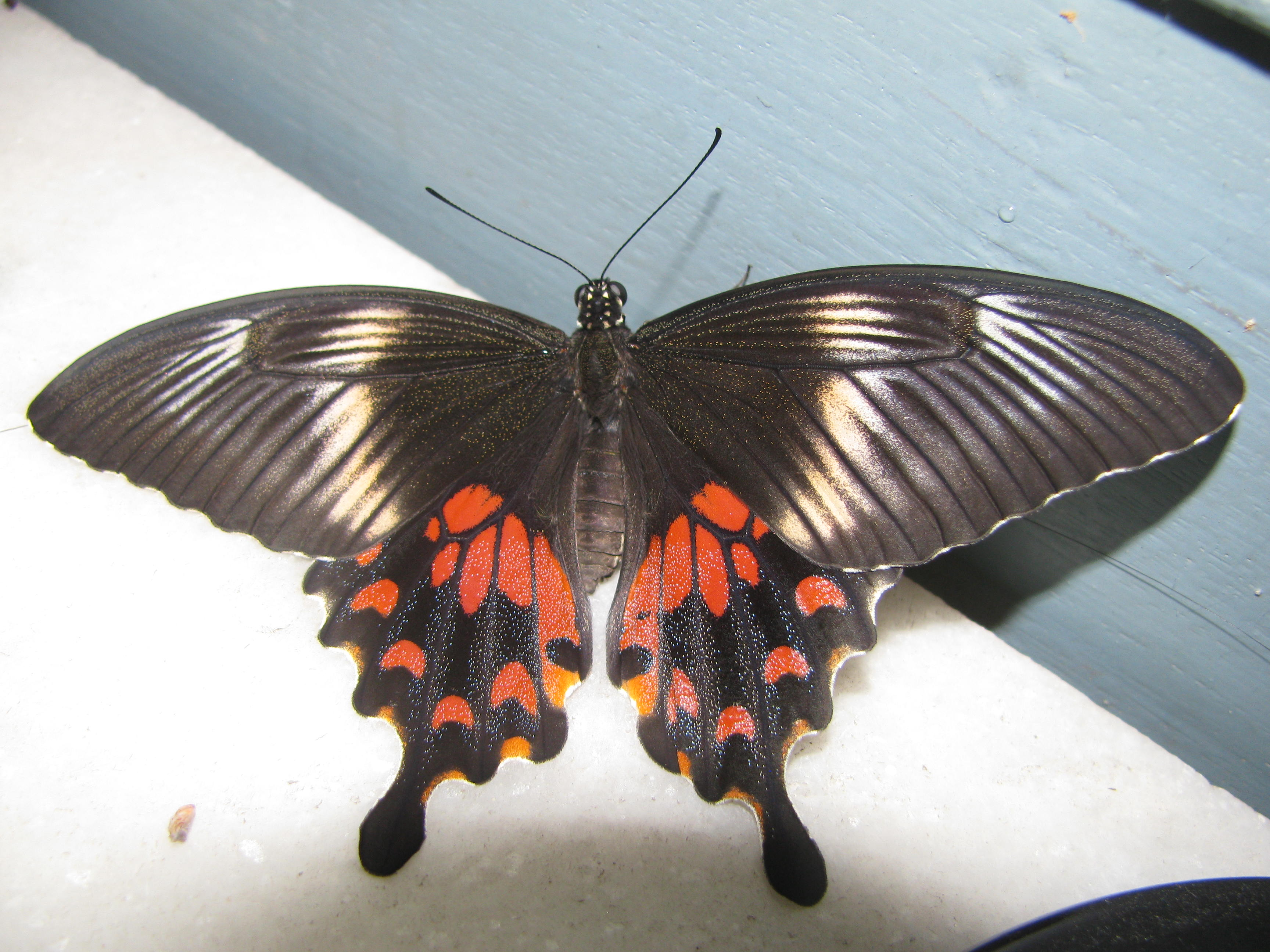 Female Common Mormon Papilio polytes ( Romulus form) found in DumDum, Kolkata, West Bengal.